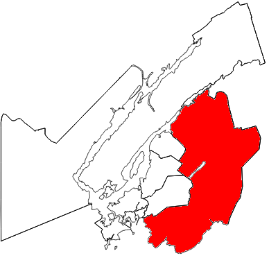 The riding of Hampton in relation to other electoral districts in Greater Saint John.